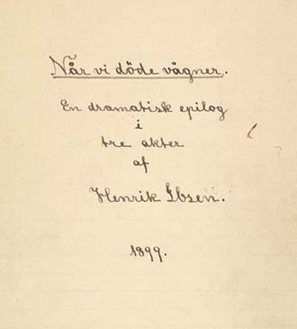 A title page of the "When We Dead Awaken" manuscript